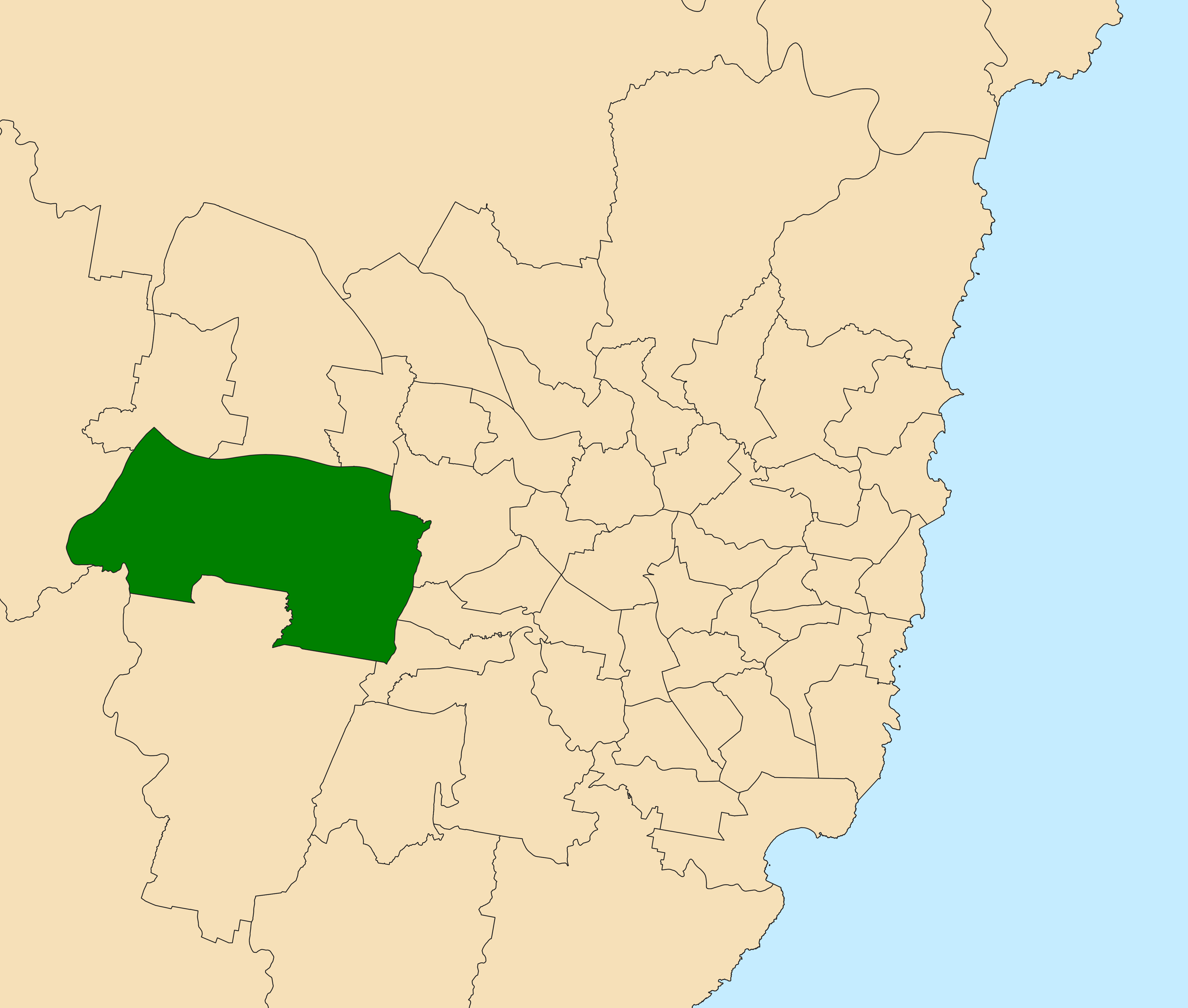 Location of the state electoral district of Mulgoa (dark green) in the metropolitan Sydney area as of the 2019 New South Wales state election. Incorporates or developed using Administrative Boundaries ©PSMA Australia Limited licensed by the Commonwealth of Australia under Creative Commons Attribution 4.0 International licence (CC BY 4.0).